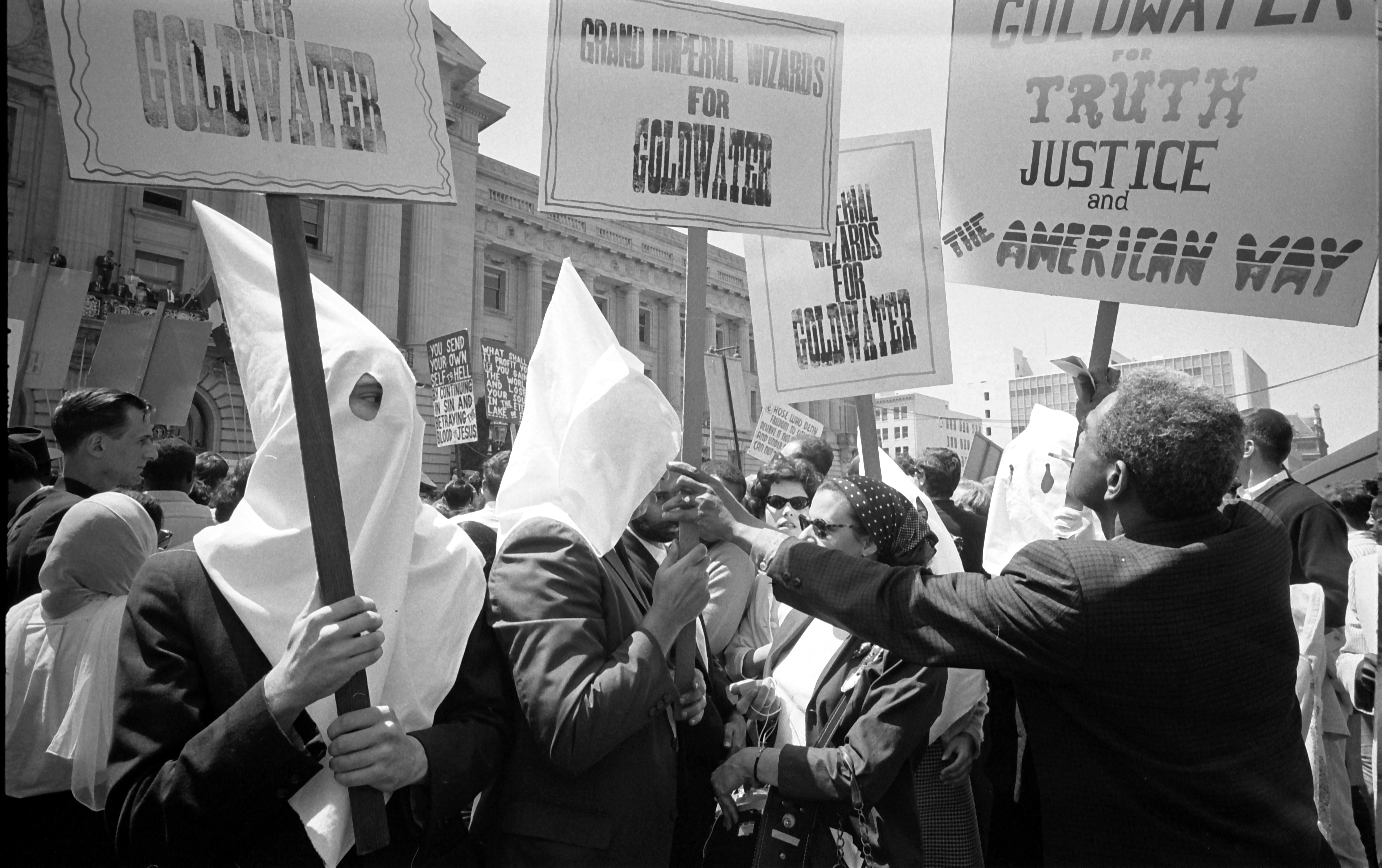 Original caption: Ku Klux Klan members supporting Barry Goldwater's campaign for the presidential nomination at the Republican National Convention, San Francisco, California, as an African American man pushes signs back See talk page File talk:Goldwater1964SanFranciscoKKK.jpg for discussion